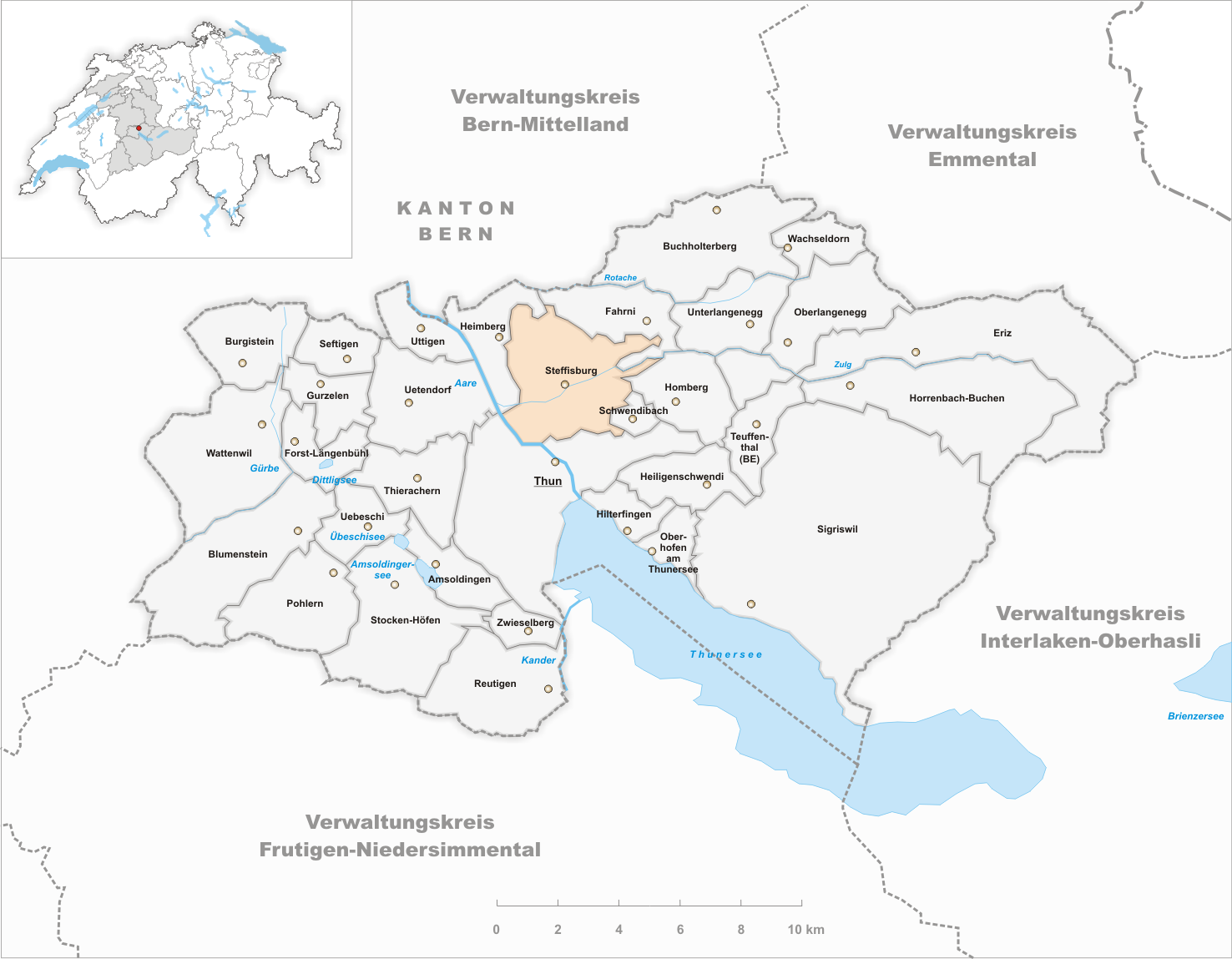 Municipality Steffisburg